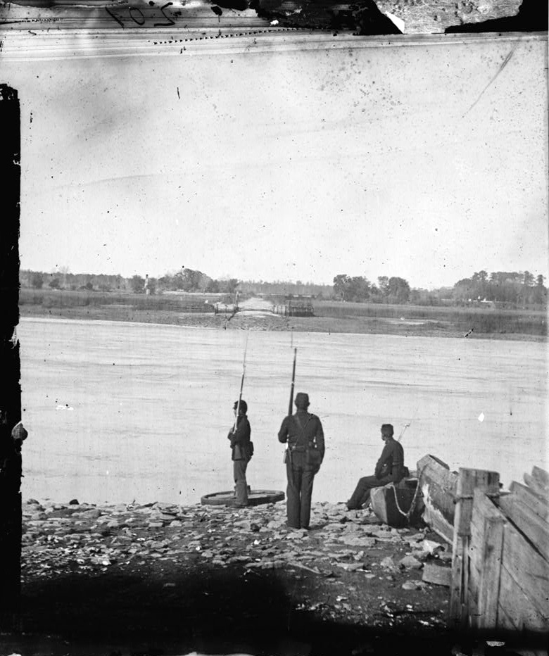 Union Forces in Port Royal in 1862